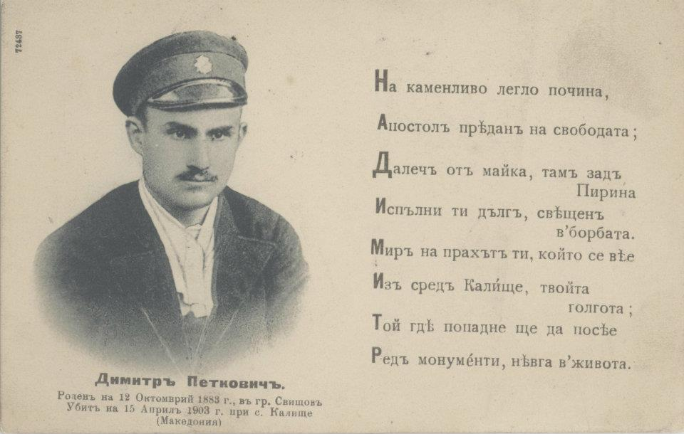 Dimitar Petkovich from Svishtov